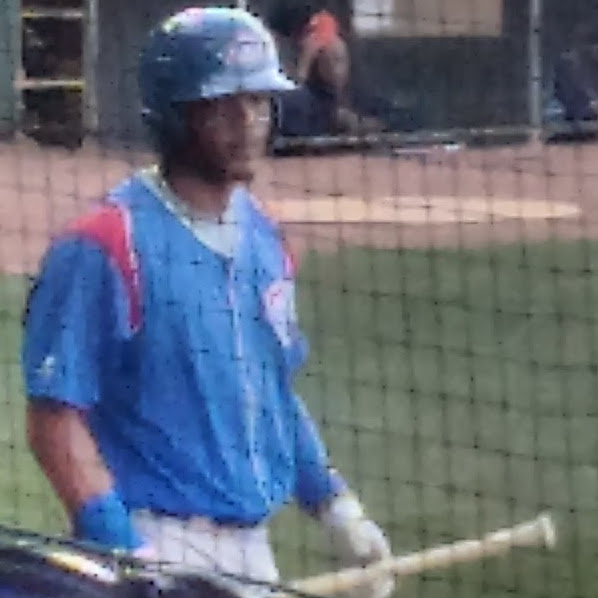 Eddy Martinez with the South Bend Cubs in 2016